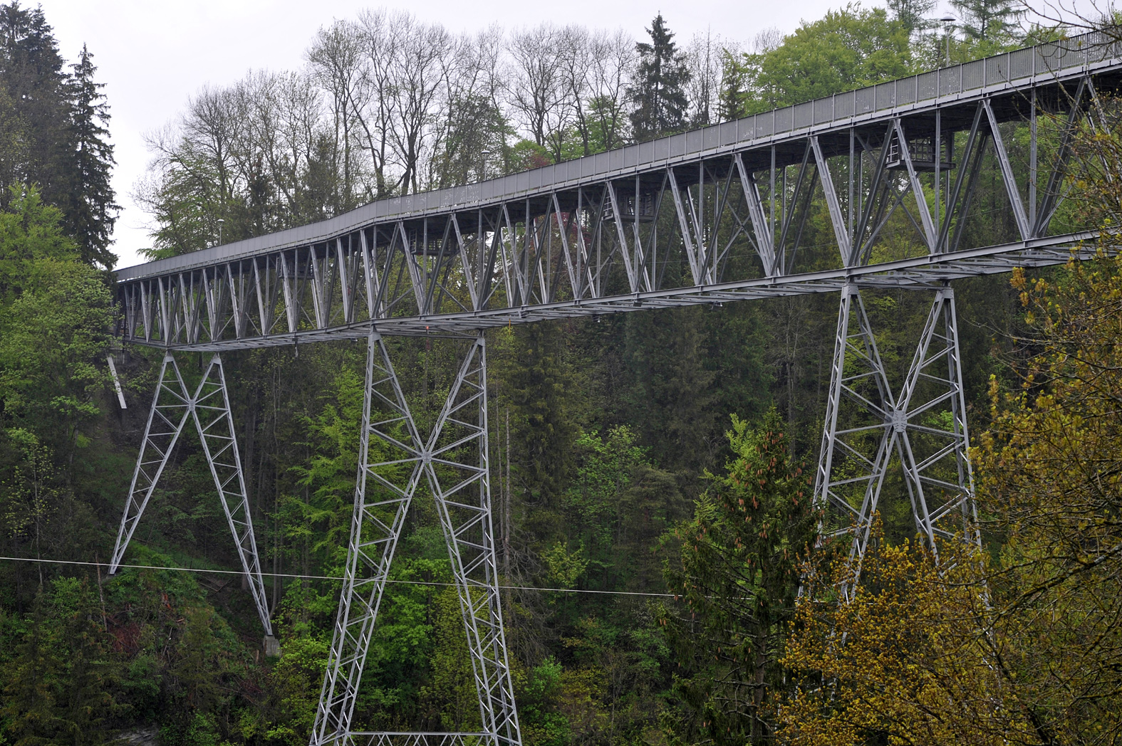 Truss bridge Haggen–Stein over the Sitter; St. Gallen and Appenzell Ausserrhoden, Switzerland.